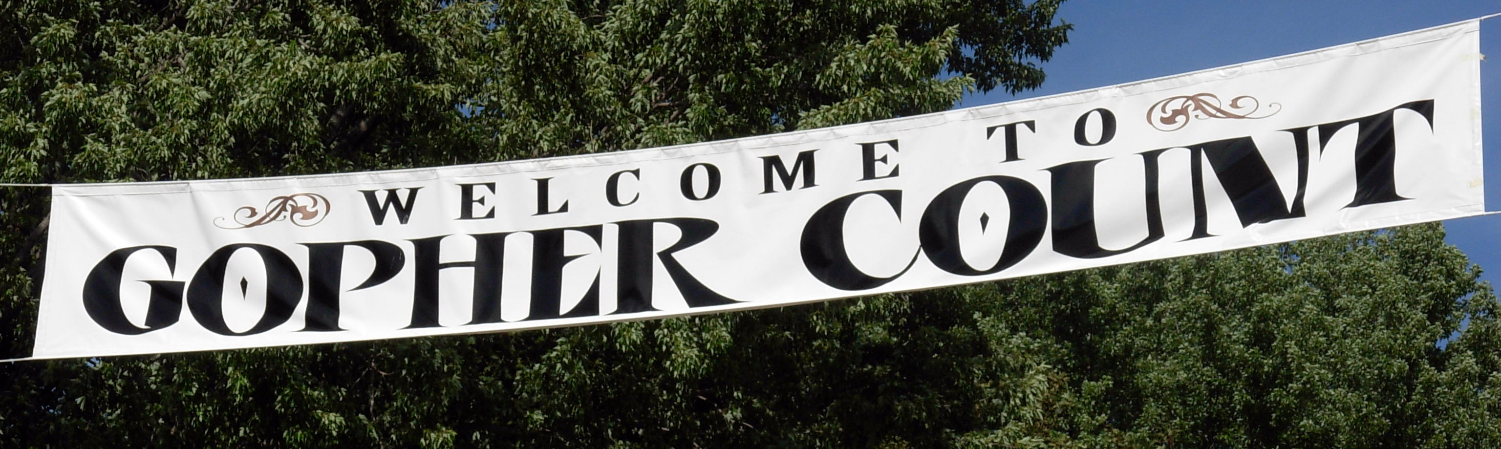 Welcome to Gopher Count banner in Viola, Minnesota.